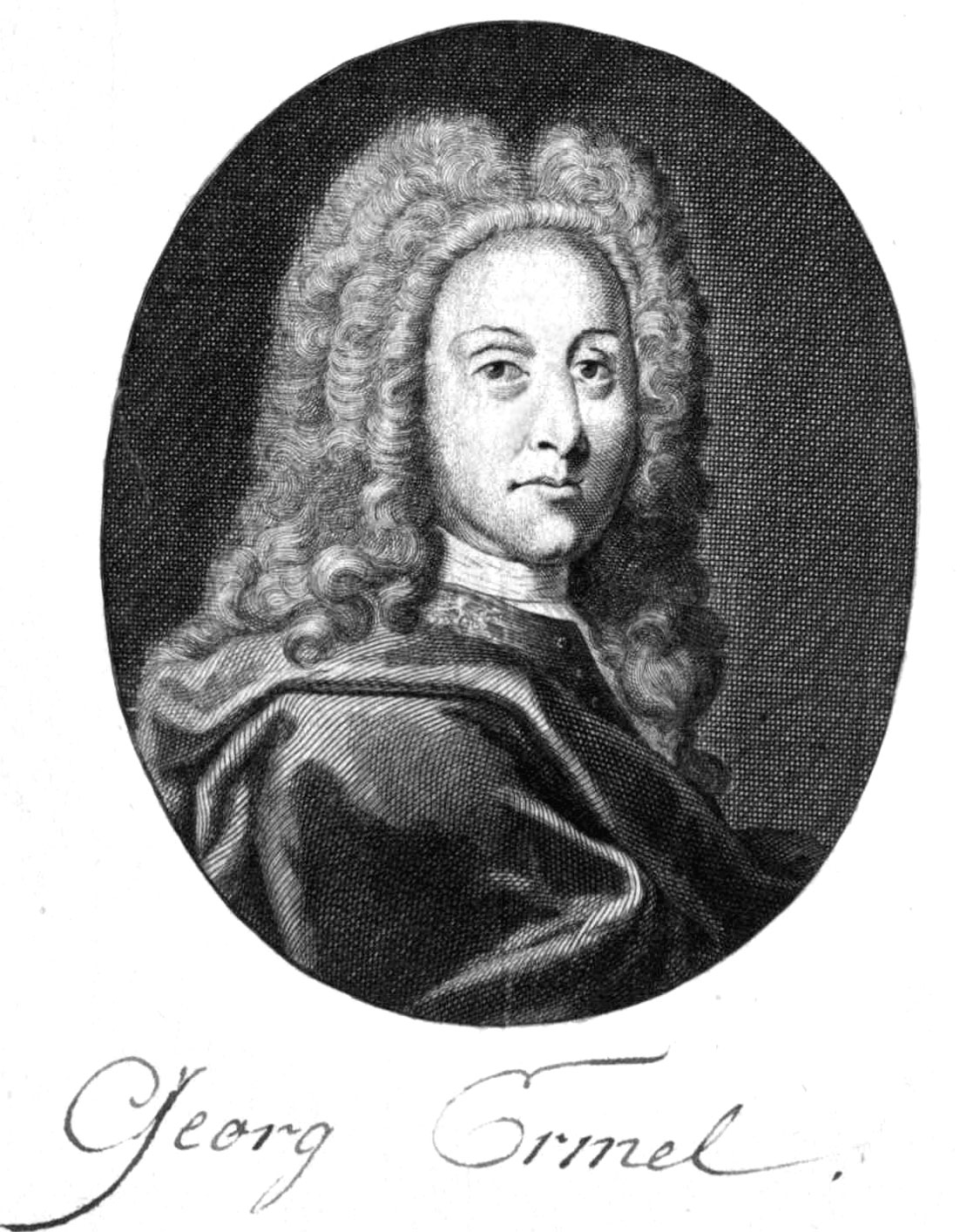 Georg Ermel (1659-1745) German educator